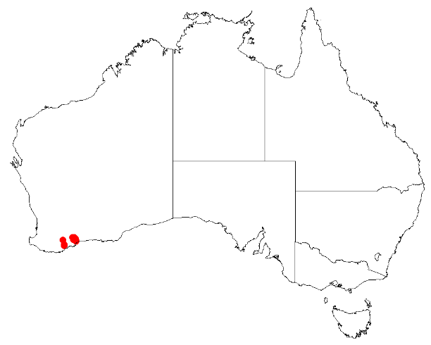 Conostylis deplexa occurrence data from Australasian Virtual Herbarium downloaded 12 May 2017